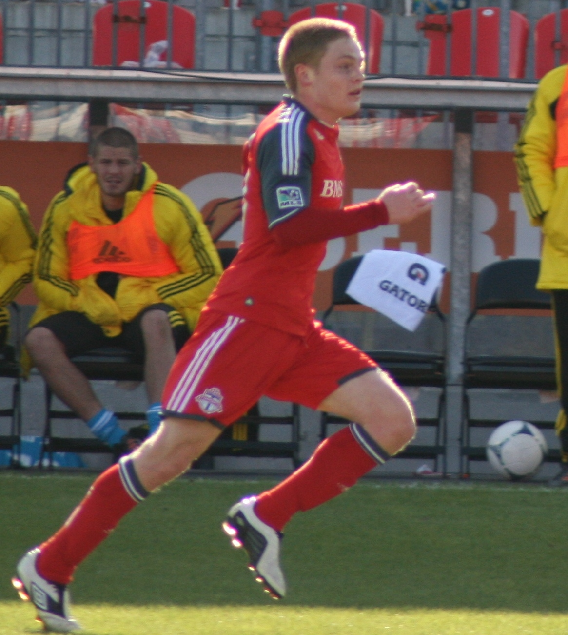 Tyler Pasher playing for TFC Reserves against the Columbus Crew